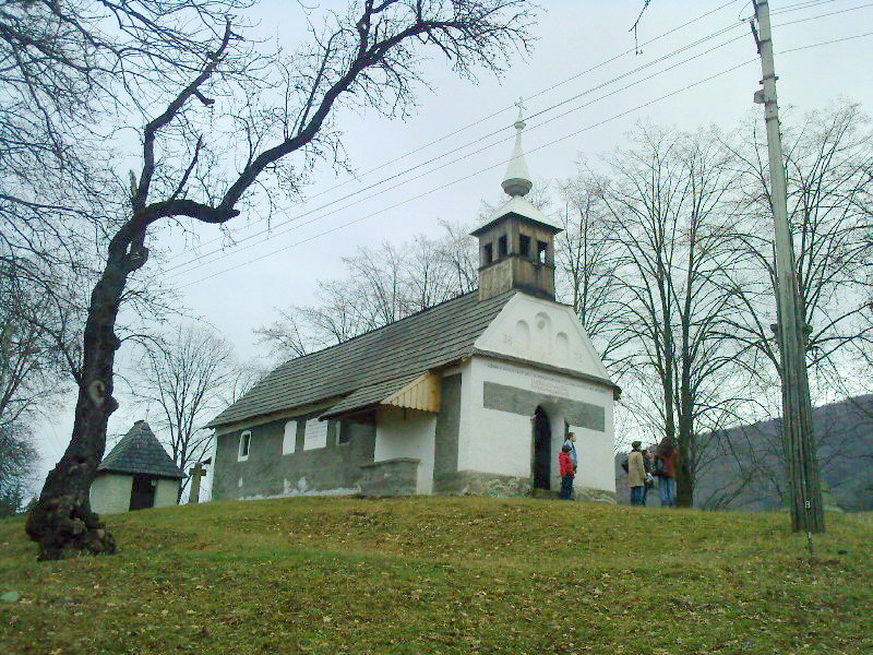 Chapel Savior, Sumuleu Ciuc, Miercurea Ciuc, Harghita County 03